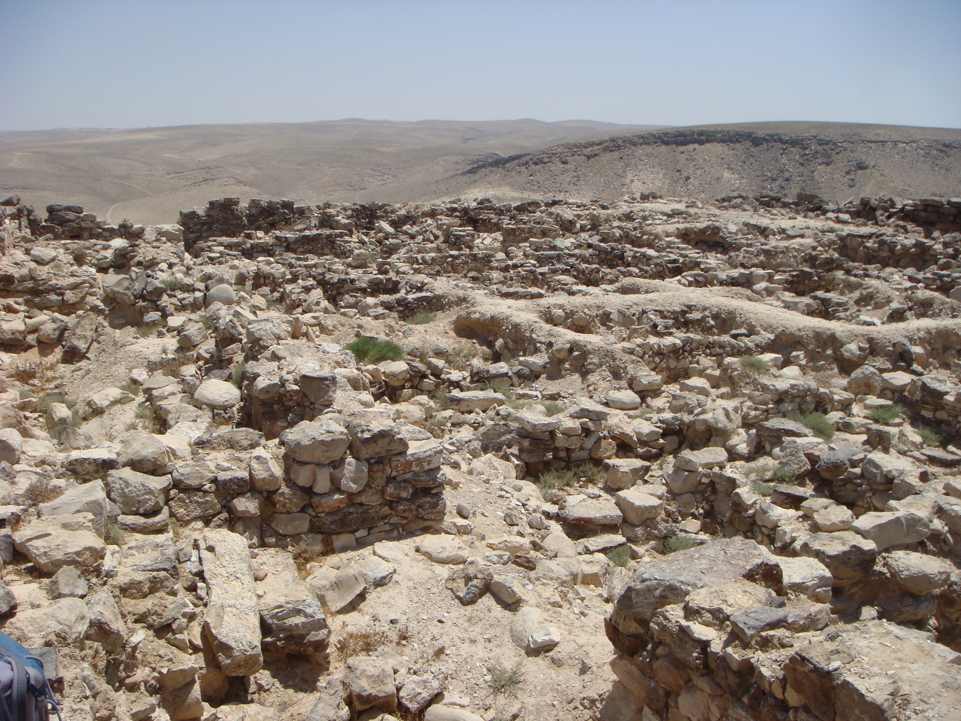 Hurvat Uzza, overlooking Kina River at Arad Valley, Israel.